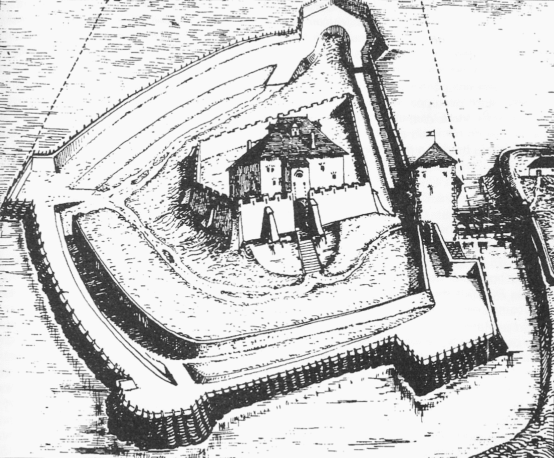 Castle of Šurany (Slovakia) form 15th-16th century